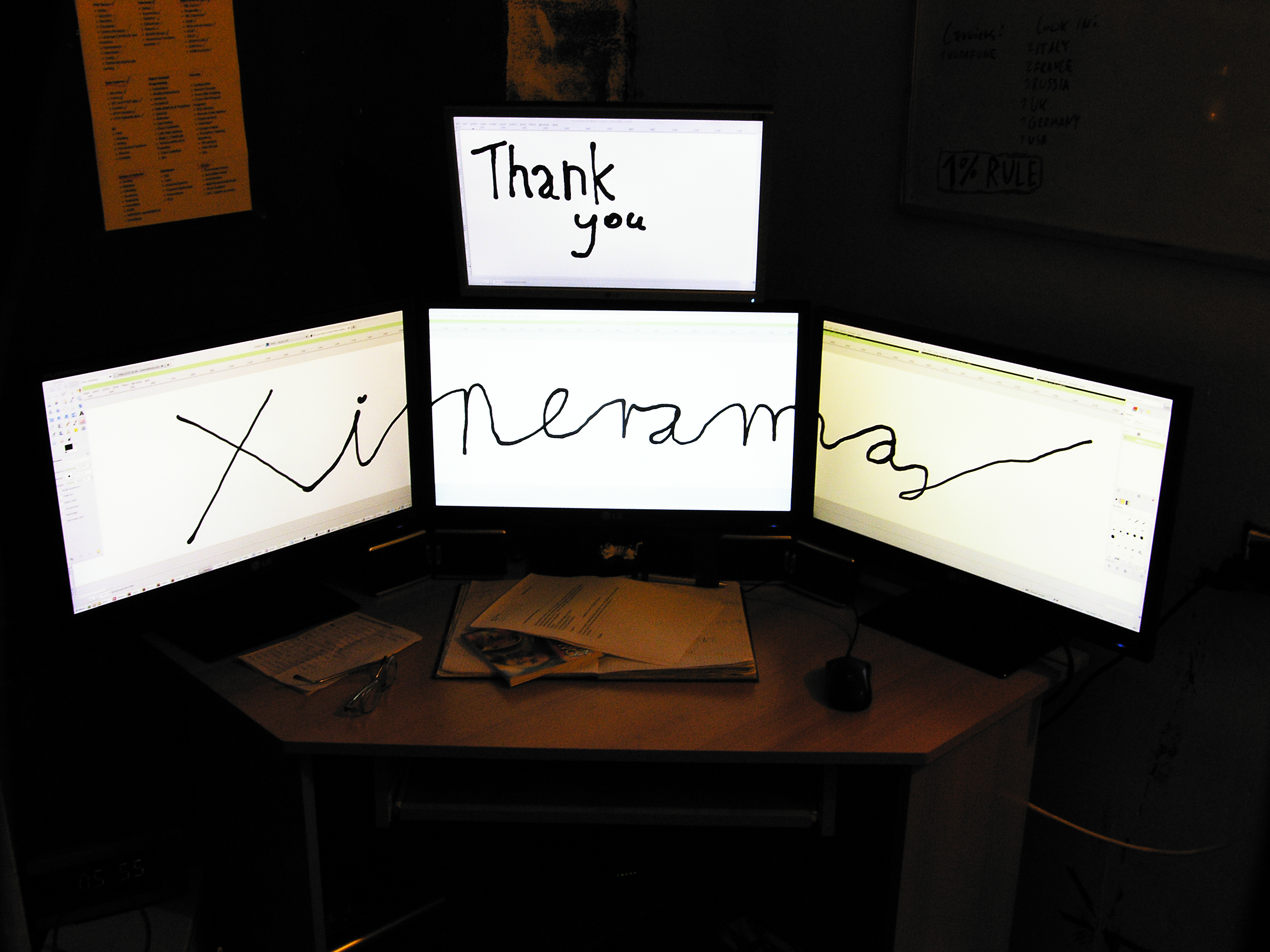 Modern example of Xinerama extension working on four monitors